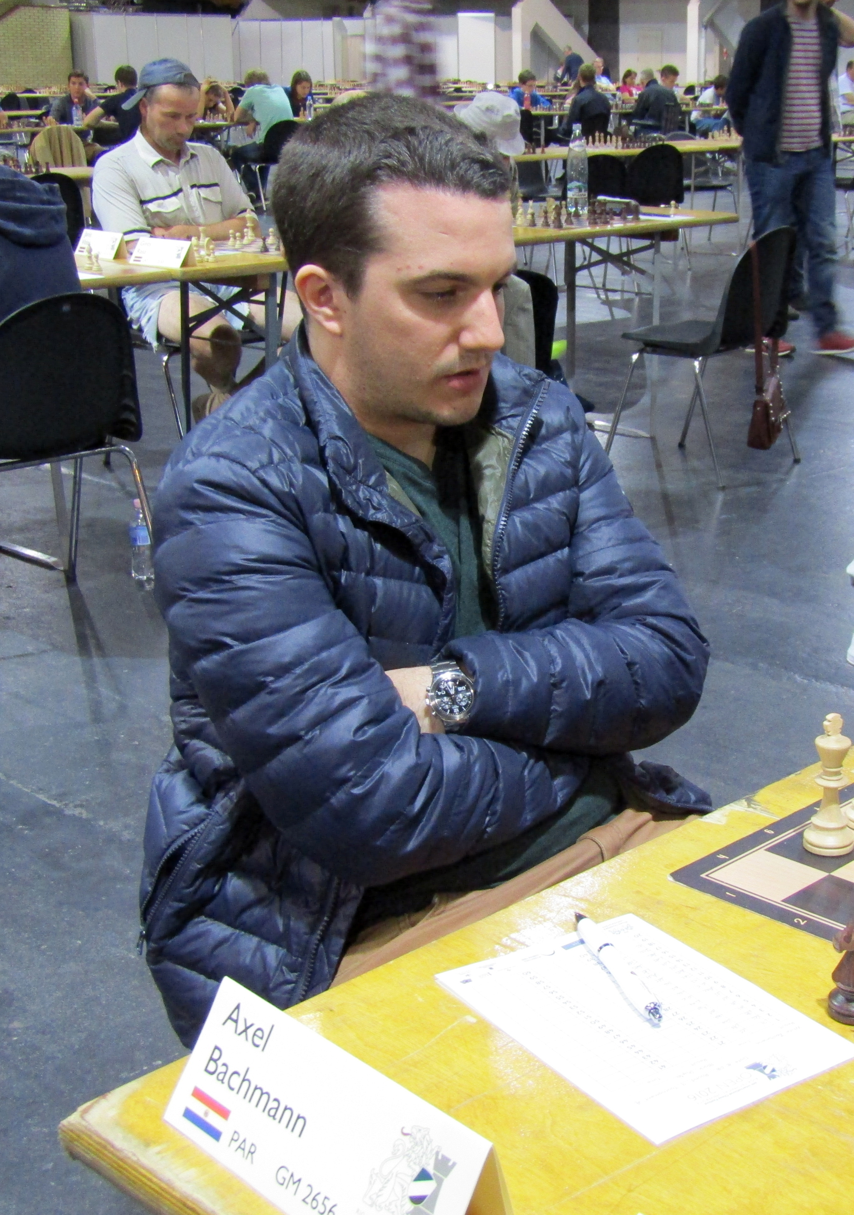 Axel Bachmann, chess grandmaster from Paraguay, 2016